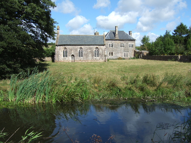 Ayshford Chapel (left) and Ayshford Court (right), Ayshford, Burlescombe, Devon, seen from the south, with the Grand Western Canal in the foreground